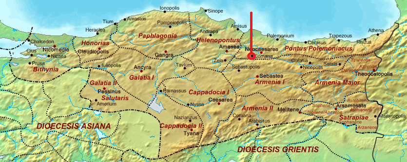 Map of Dioecesis Pontica 400 AD, claerly indicating the position of Comana Pontica